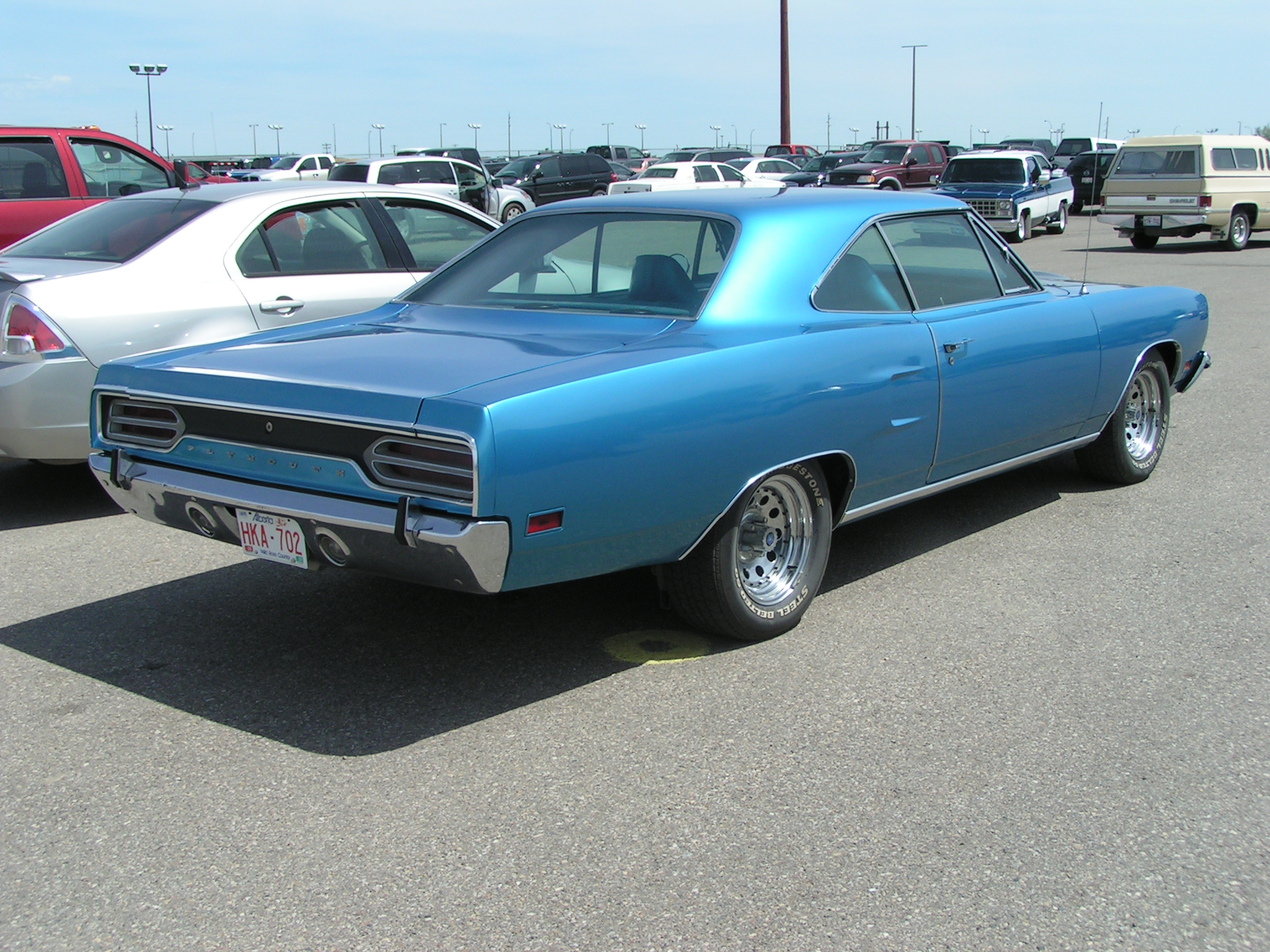 Plymouth in the parking lot at the Chinook Country Rod Run show and shine.